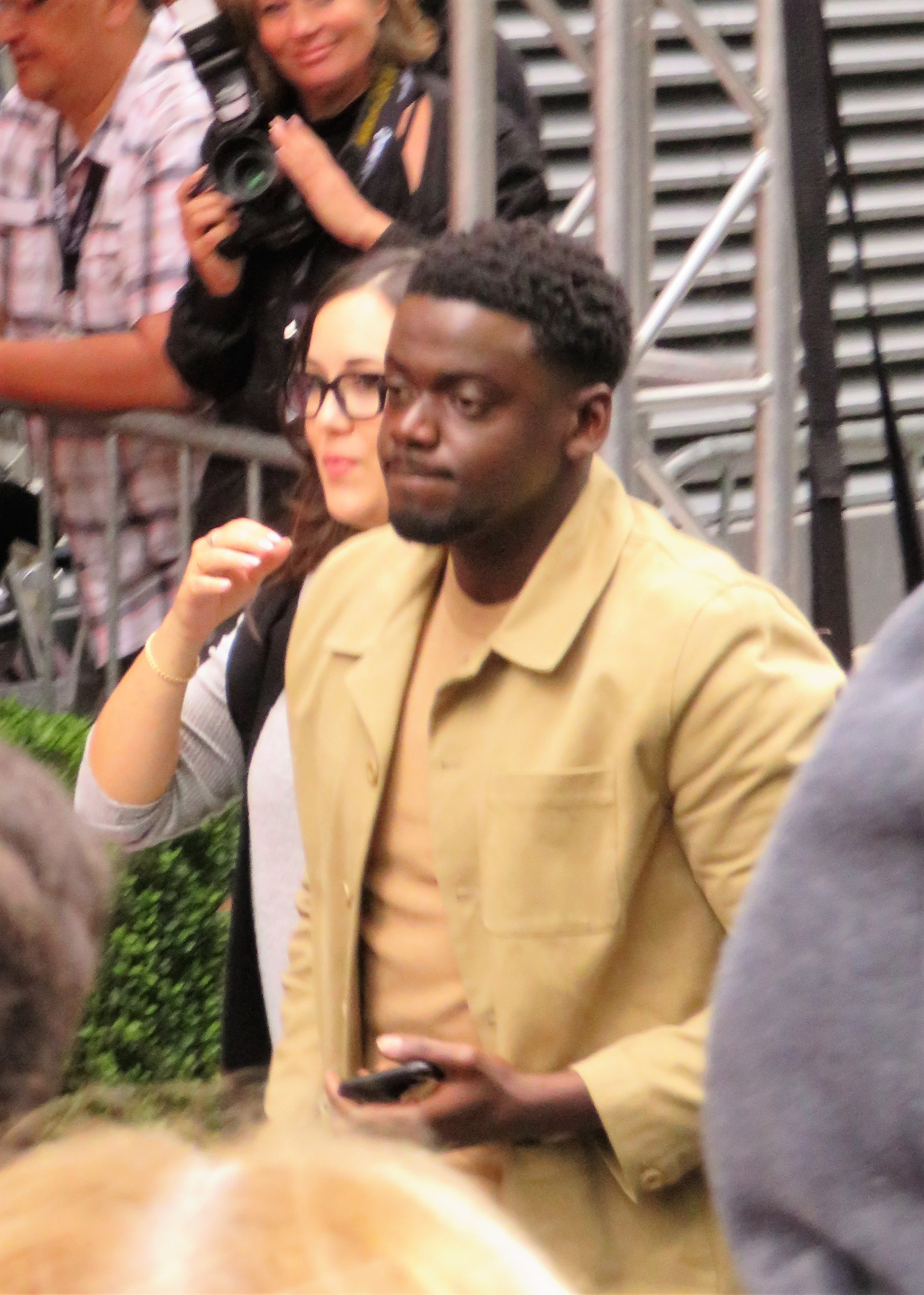 Daniel Kaluuya at the press conference of Widows, 2018 Toronto Film Festival